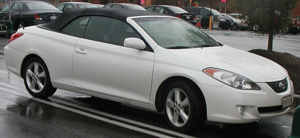 2003-2005 Toyota Solara convertible photographed in USA.